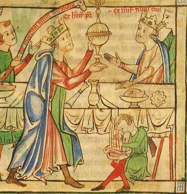 Cropped version of Young King Henry's coronation banquet.